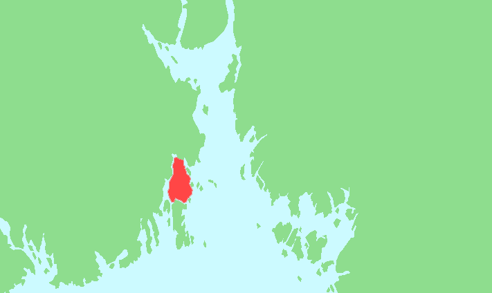 Locator map of Nøtterøy, Vestfold, Norway